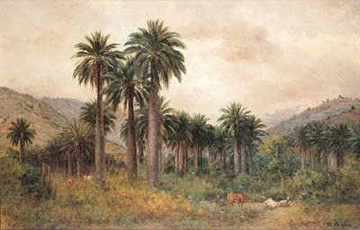 onofre jarpa